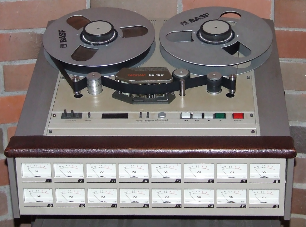 Tascam 1-inch 16-Track analogue tape recorder.